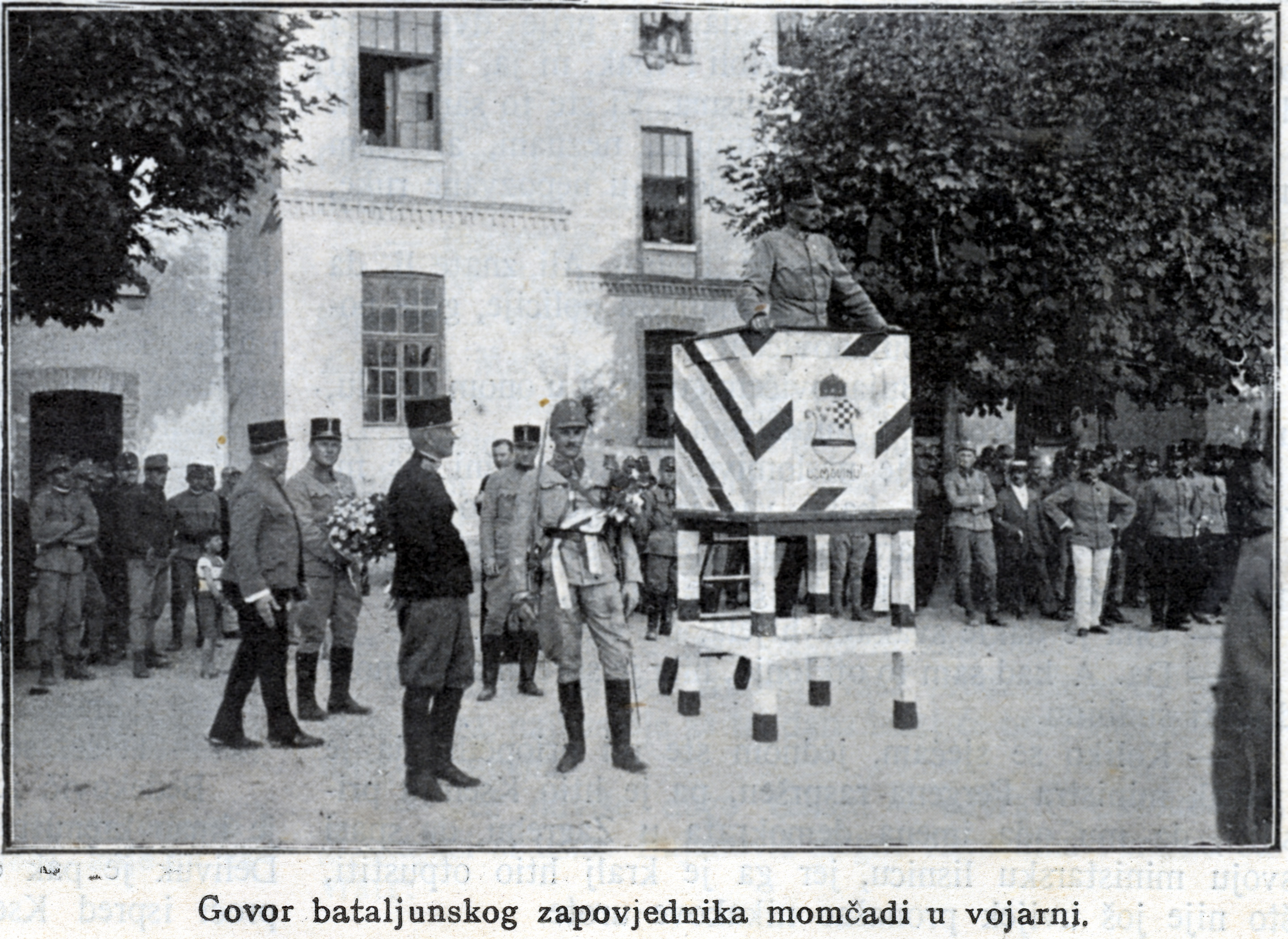 Commander's speech in Military Barracks of the Royal Croatian Home Guard, Zagreb, 1915